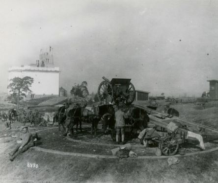 1918 Finnish Civil War: German artillery in the Ilmala Hills during the Battle of Helsinki.